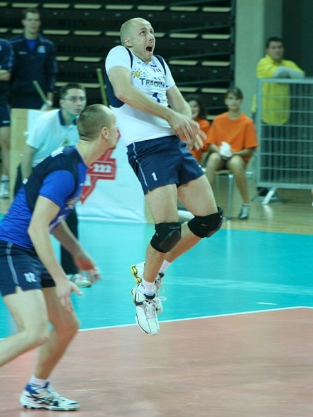 Finland volleyball player Tapio Kangasniemi receive serve in Olympic Qualifation 2008